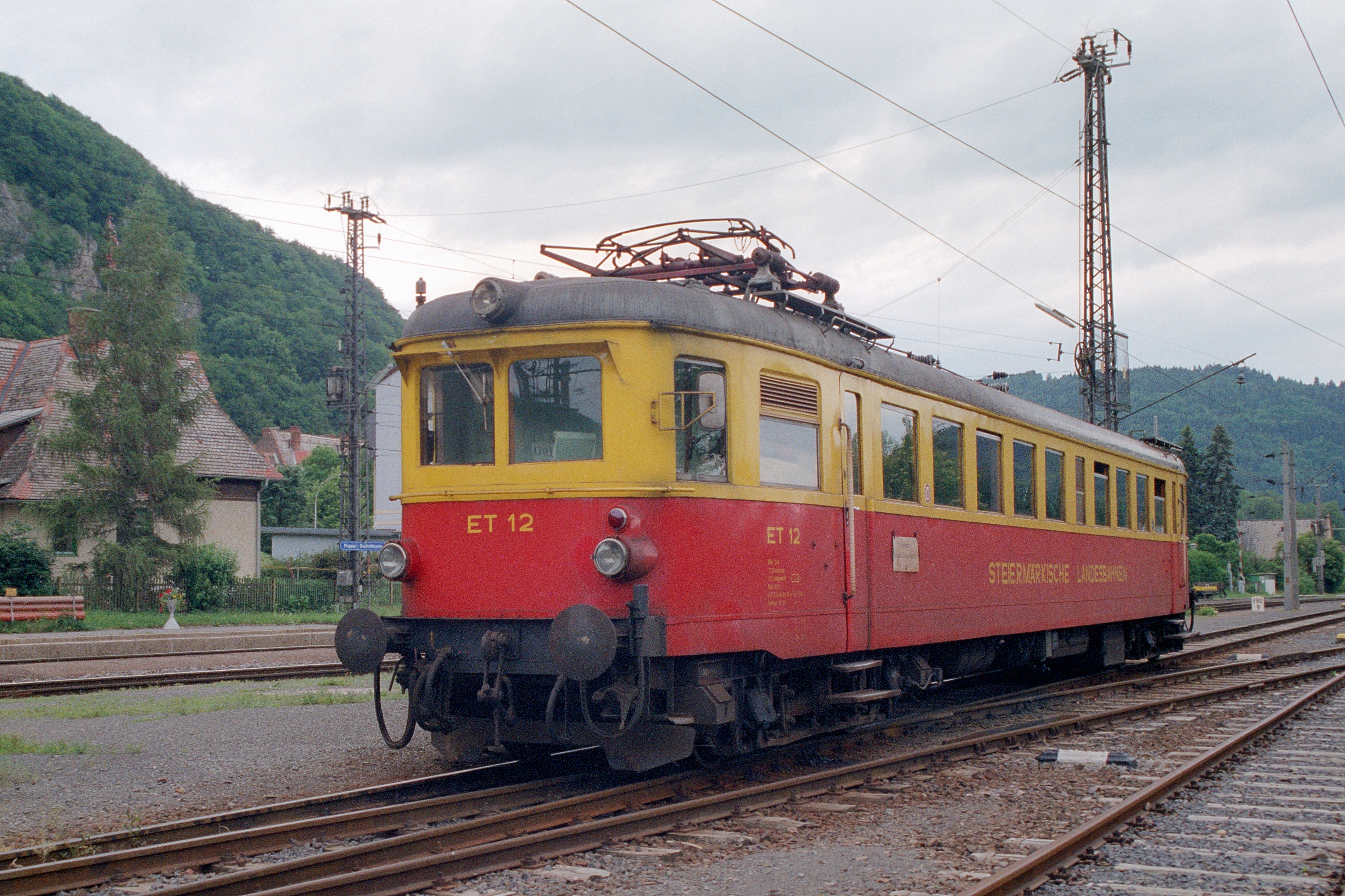 StLB ET12 (ex ÖBB 4042.02) in Peggau-Deutschfeistritz station.